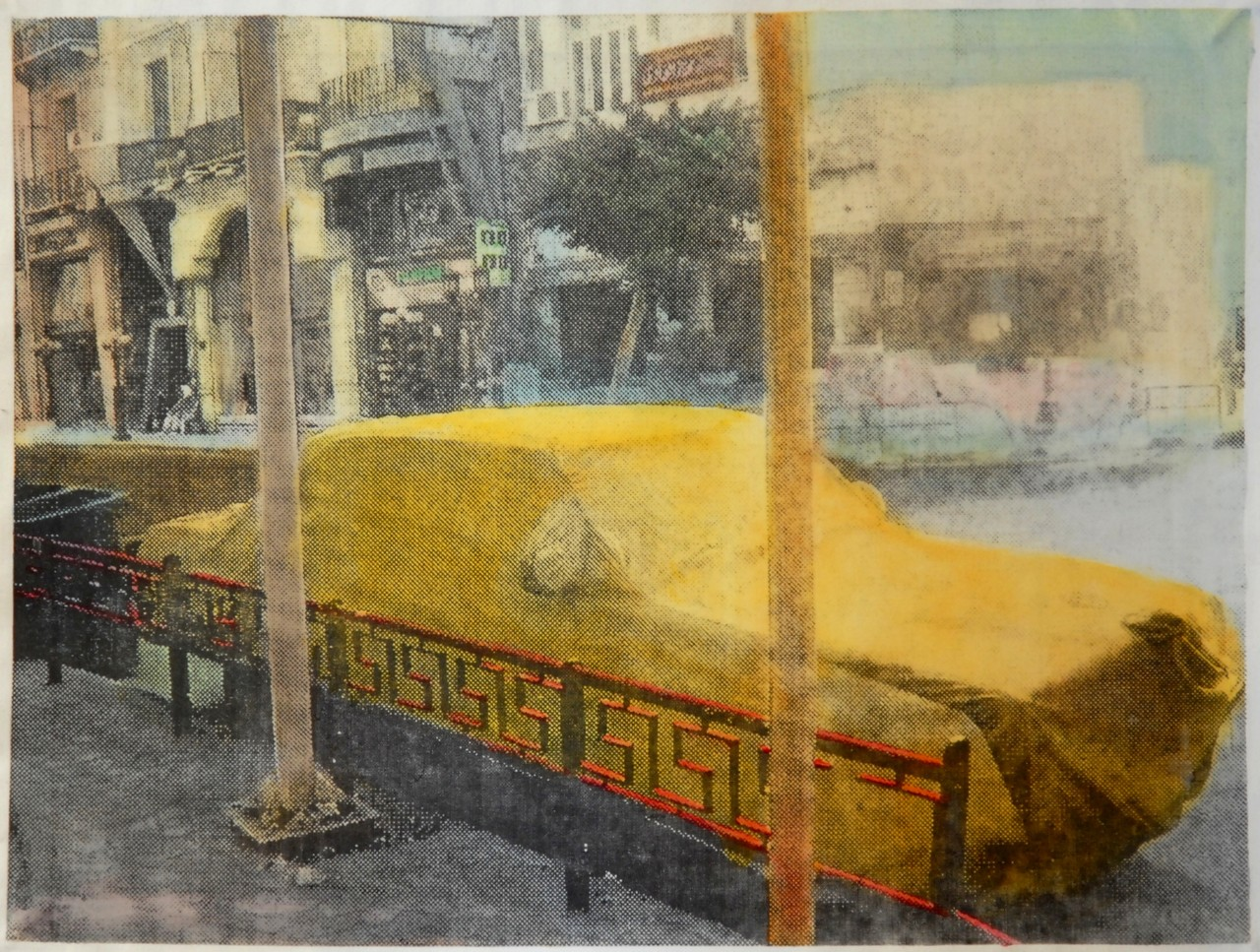 Screen Printing "Covered Cars" series, CC5/3, 2008